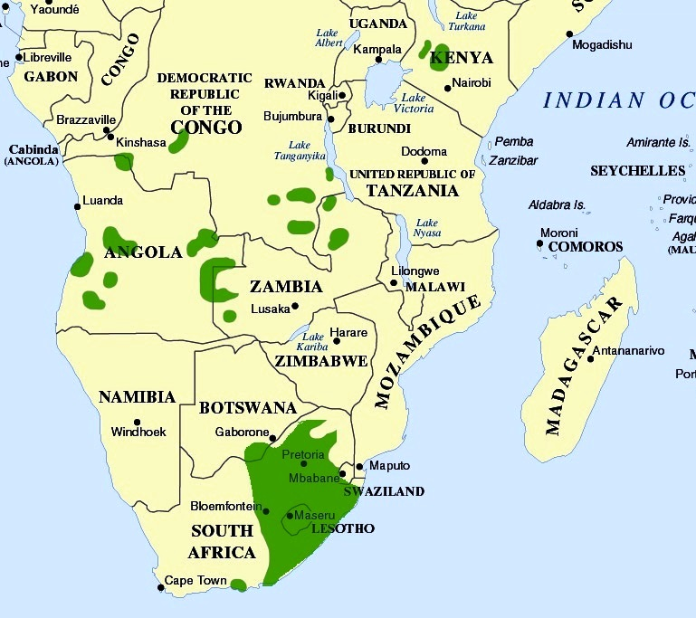 A range map of the habitat of the long-tailed widowbird